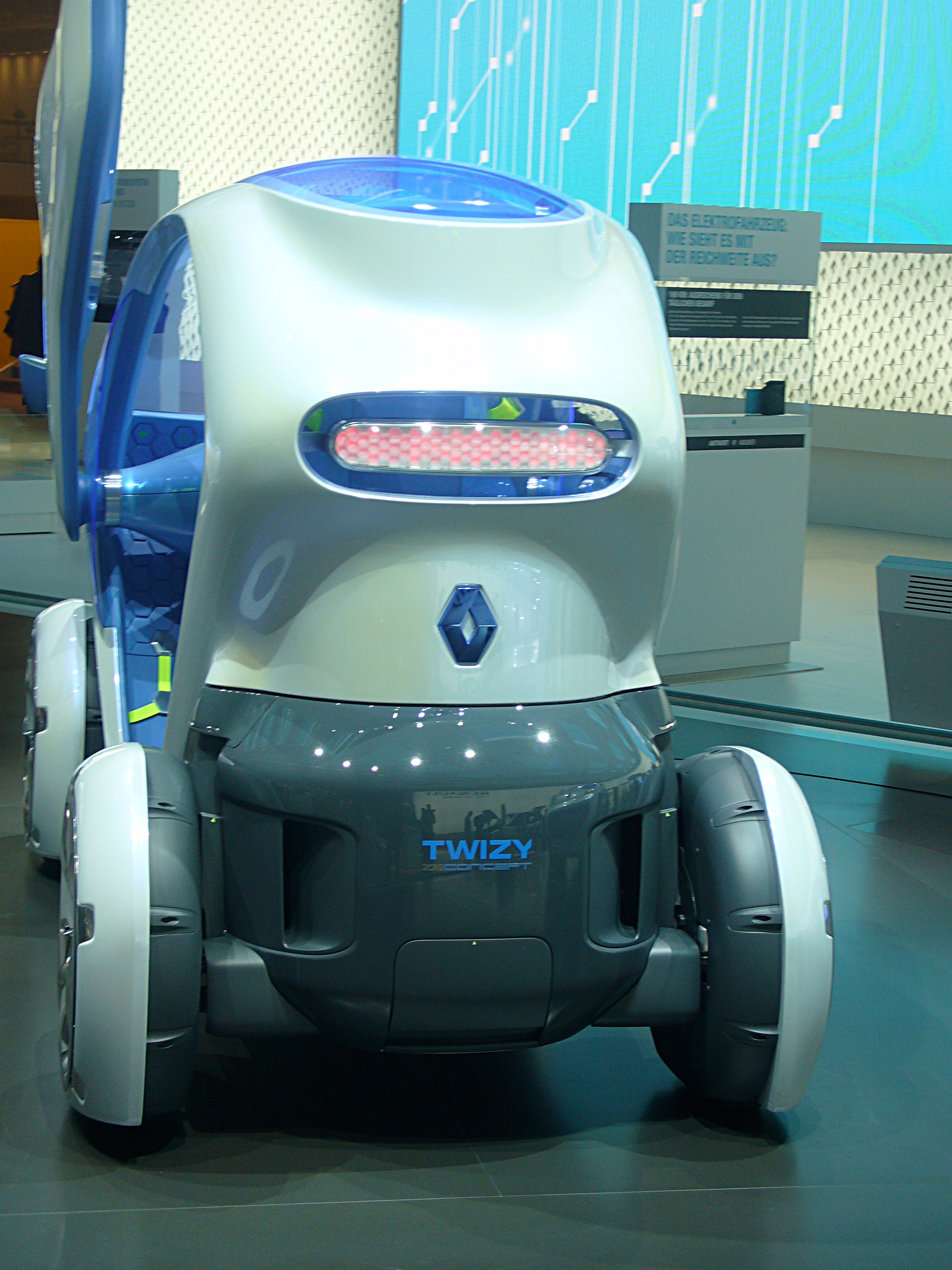 Renault Twizy Z.E. Concept at IAA Frankfurt 2009